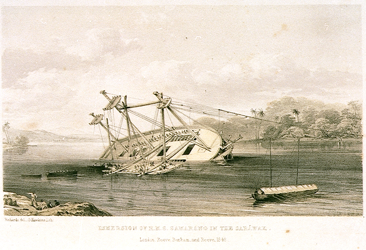 Immersion of H.M.S. Samarang in the Sarawak Print